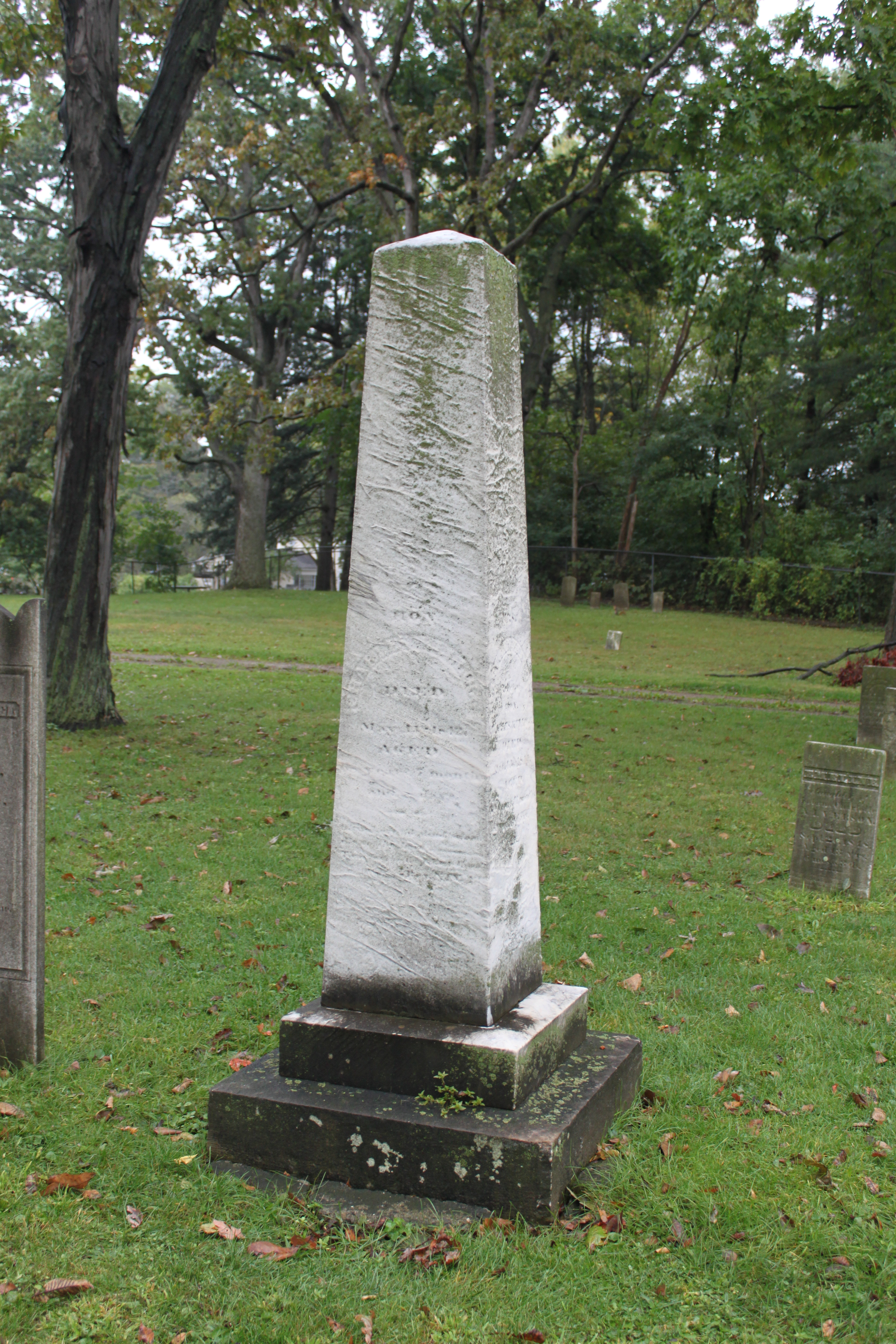 Grave of Charles Kellog, Fairview Cemetery, Ann Arbor, Michigan. Kellogg was a member of the US House of Representatives from New York. The inscriptions on the obelisk are hard to read, but the first name inscribed is definitely 'Charles' and the last name does appear to be 'Kellogg' and the date of death is shown as 'May 11' with the year being unrecognizable, but his recorded date of death is May 11. I was told by someone at the Ann Arbor Parks and Recreation Dept. that his grave is a block 20, lot 2, grave 8. Only the blocks are numbered at the cemetery and this grave is in block 20.